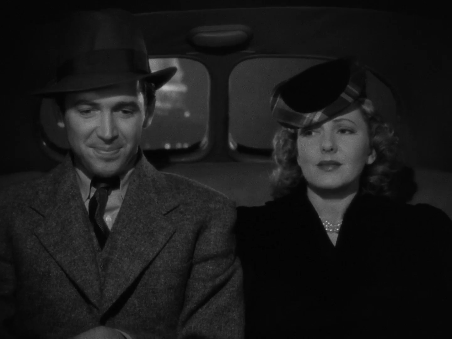 Cropped screenshot of James Stewart and Jean Arthur from the trailer for the film Mr. Smith Goes to Washington